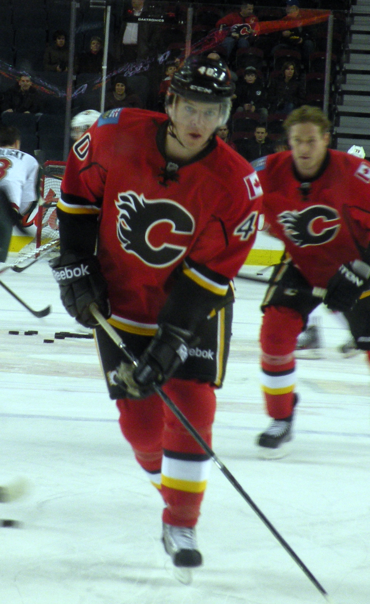 Calgary Flames forward Alex Tanguay during warmup prior to a National Hockey League game against the Minnesota Wild.